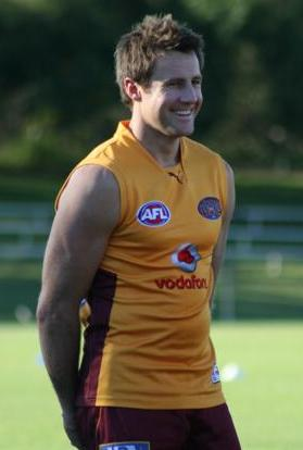 Tim Notting at a Brisbane Lions public training session in 2007. Giffin Park, Brisbane, QLD, Australia.